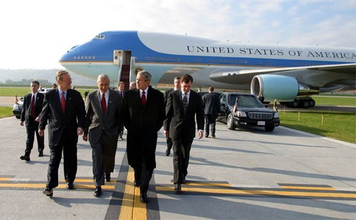 Arriving in Harrisburg, Pa., President George W. Bush walks with Pennsylvania Attorney General Mike Fisher, far left, Rep. George Gekas, center, and Governor Mark Schweiker Friday, Nov. 1. White House photo by Paul Morse